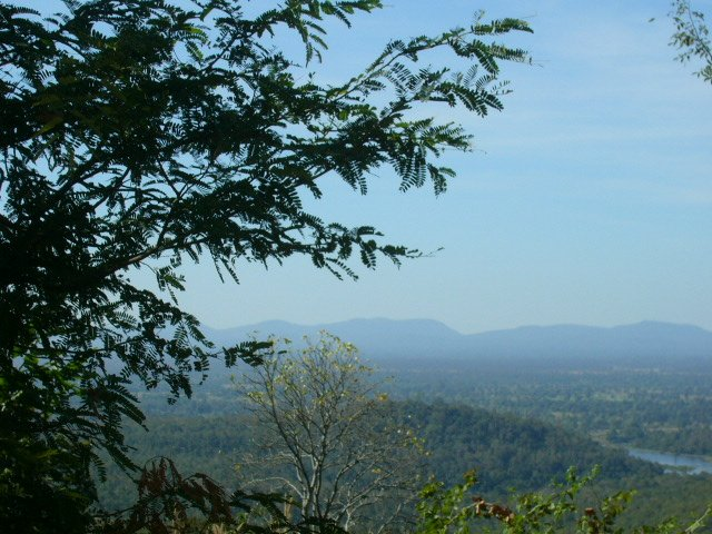 Phu Phan Mountains, Northeastern Thailand (prospect from Wat Tham Kham [วัดถ้ำขาม]/Wat Jatschau)